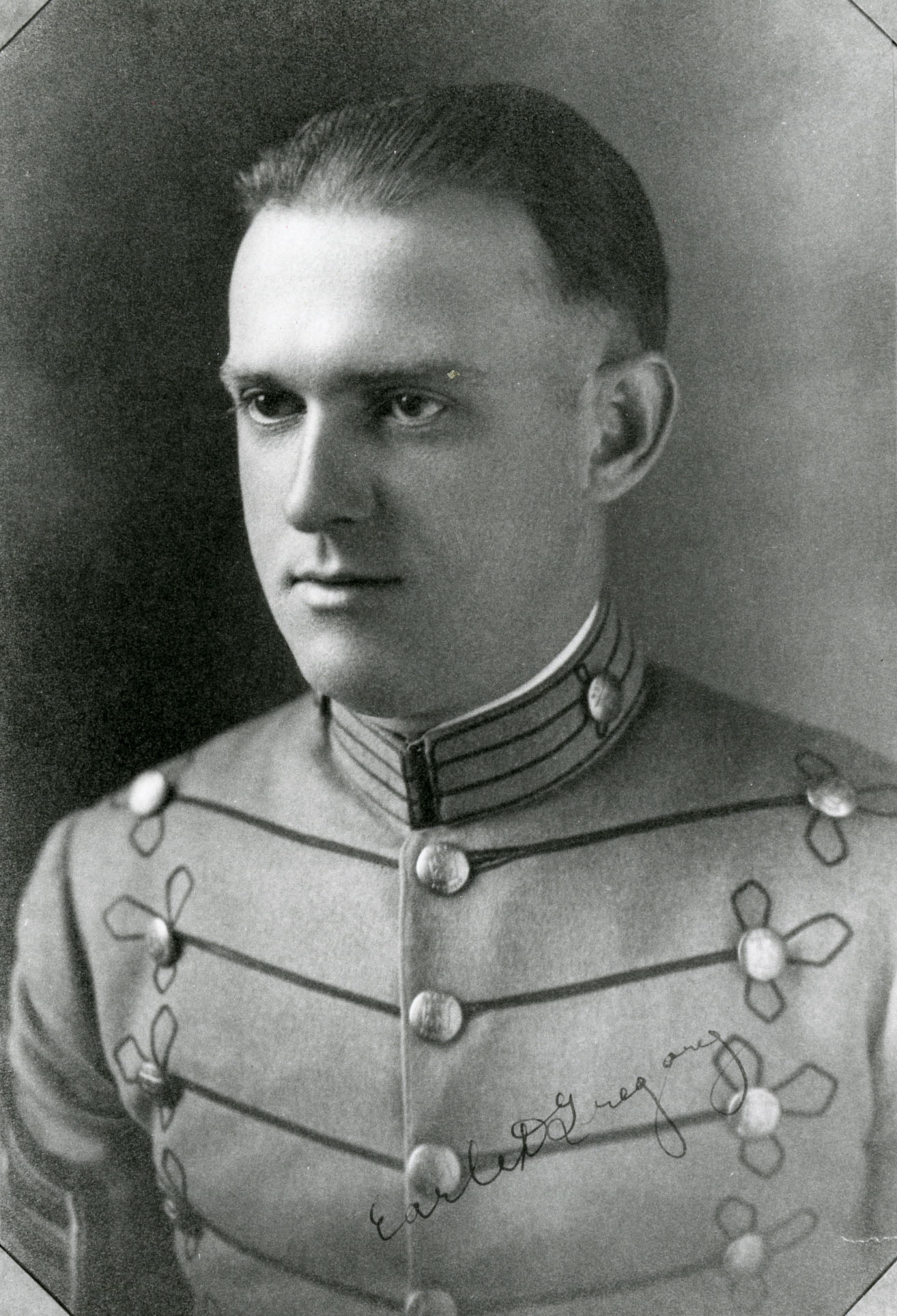 Earle D Gregory, Medal of Honor recipient